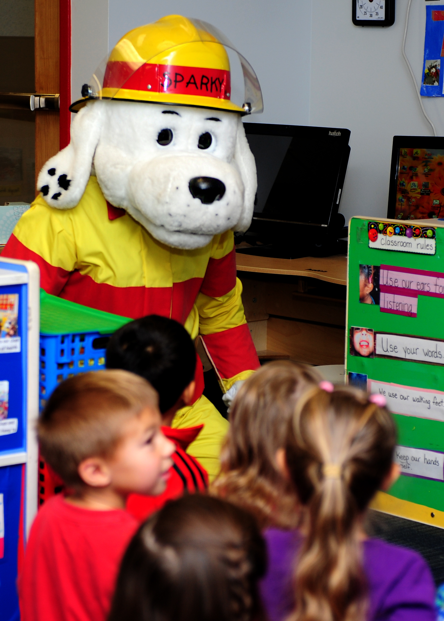 Sparky the fire dog visits children at Joint Base Langley-Eustis, Va., during Fire Prevention Week hosted by the 633rd Civil Engineer Squadron Oct. 10, 2013. The week-long national campaign was designed around kitchen fire safety.